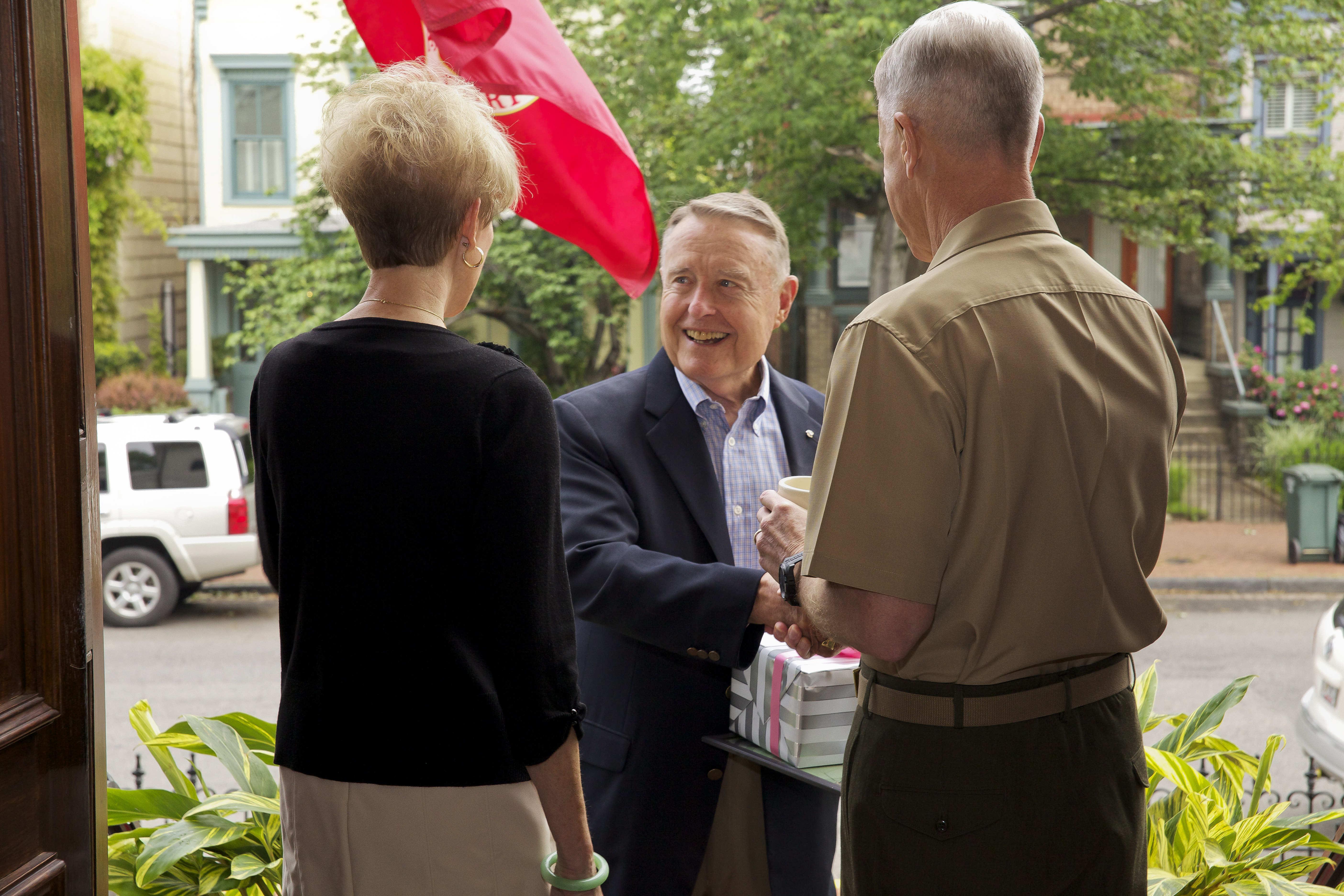 The 35th Commandant of the Marine Corps (CMC), Gen. James F. Amos, right, and Marine Corps First Lady Bonnie Amos, left, greet the 30th CMC, retired Gen. Carl E. Mundy, Jr., prior to a breakfast in Mundy's honor at the Home of the Commandants in Washington, D.C., May 9, 2013.